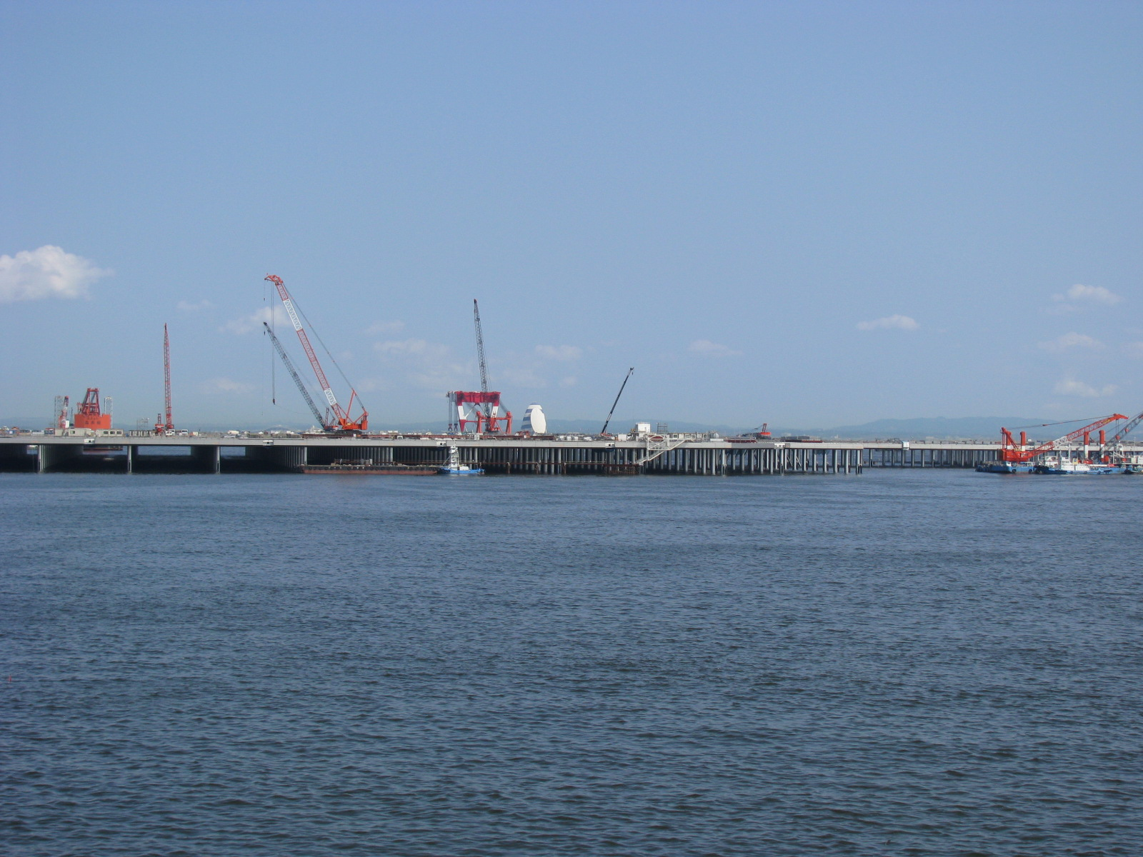 This is the New runway of Haneda Airport. This runway is on Artificial island and Pier.